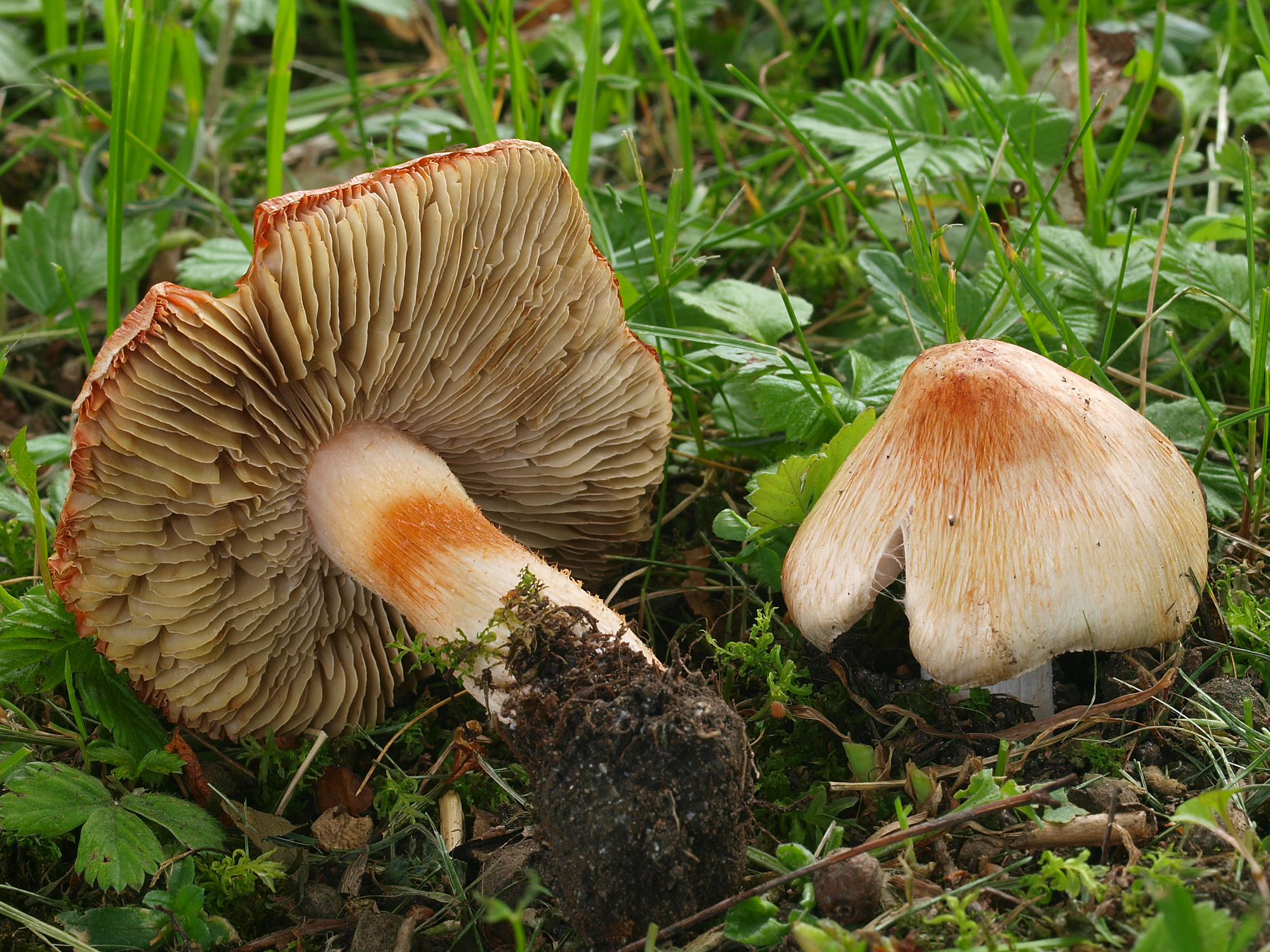 Deadly Fibrecap (Inocybe erubescens)